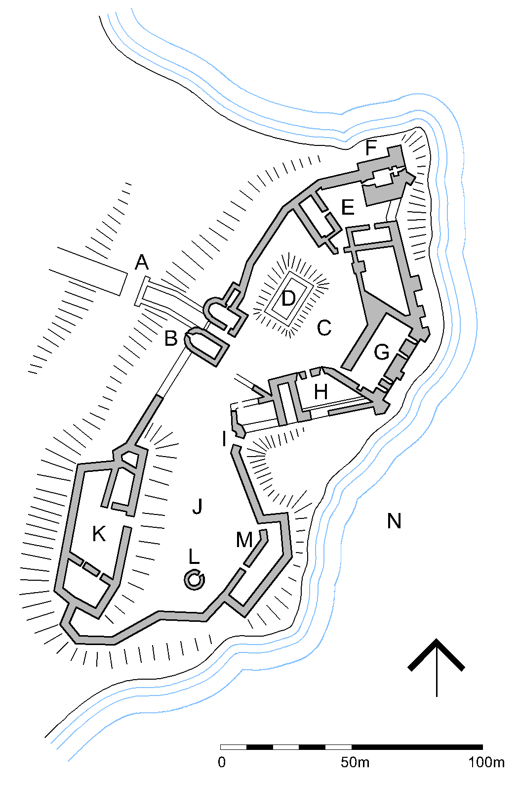 Plan of Urquhart Castle, Loch Ness, Scotland Key: A Site of drawbridge · B Gatehouse · C Upper Bailey · D Chapel · E Inner close · F Grant Tower · G Great Hall · H Kitchen · I Water gate · J Nether Bailey · K Motte · L Doocot · M Smithy · N Loch Ness